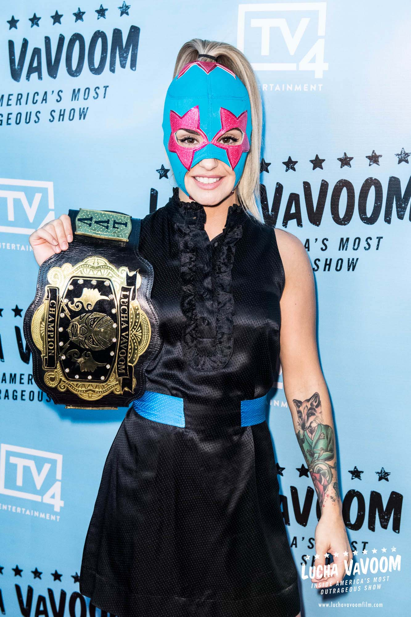 Dama Fina attends the 'Lucha VaVOOM: Inside America's Most Outrageous Show' premiere at the Harmony Gold Theatre on October 17, 2018 in Los Angeles, California.